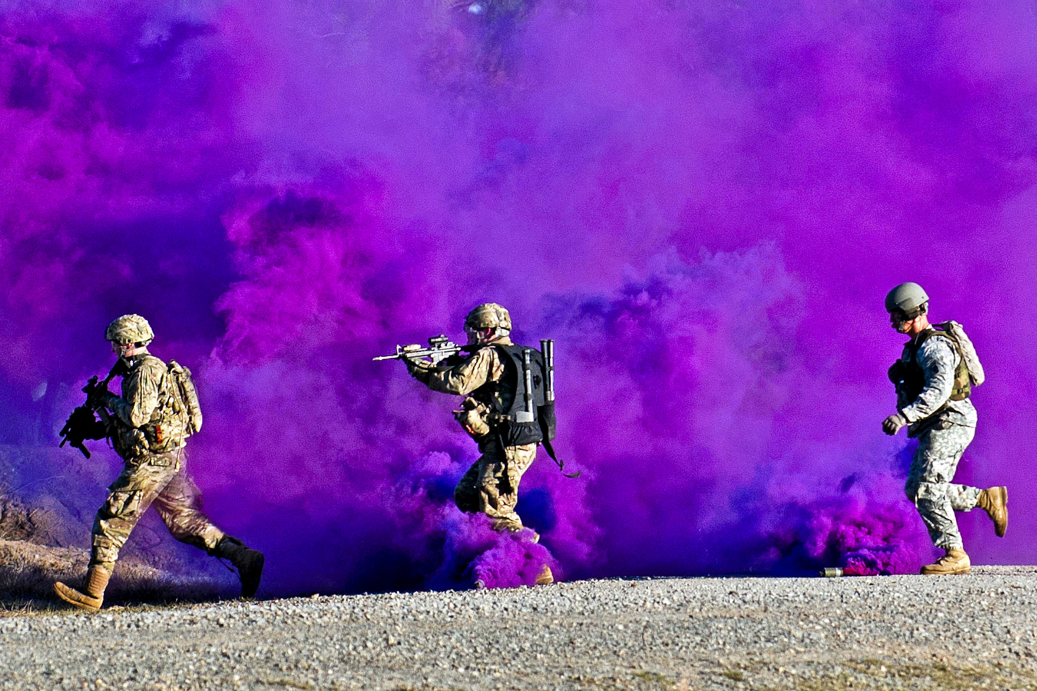 Two paratroopers and a trainer run through a smokescreen during a live-fire exercise at the Joint Readiness Training Center at Fort Polk, La., on Jan. 14, 2012.